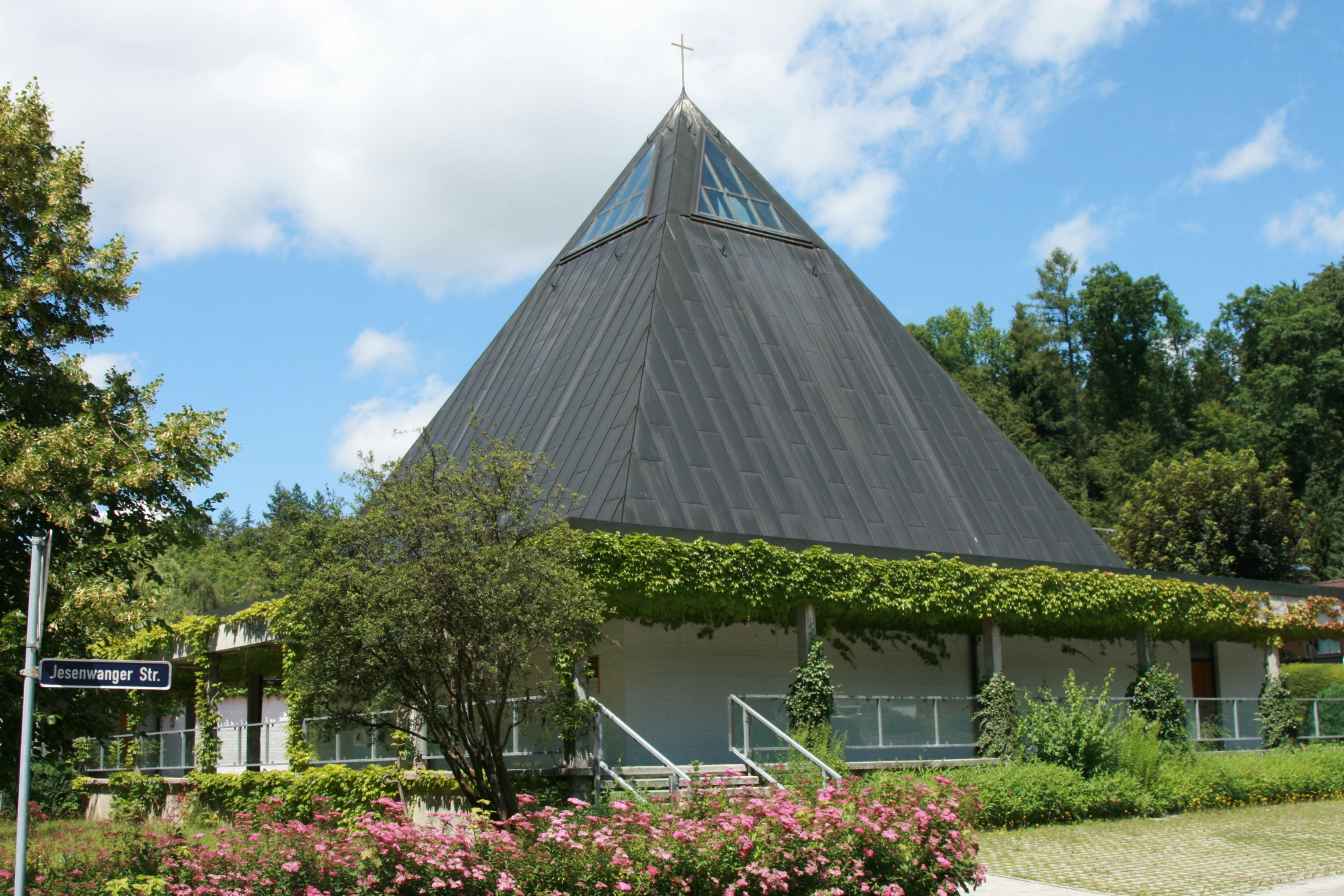 View of the protestant church in Grafrath (Michaelskirche)in Bavaria, Germany.